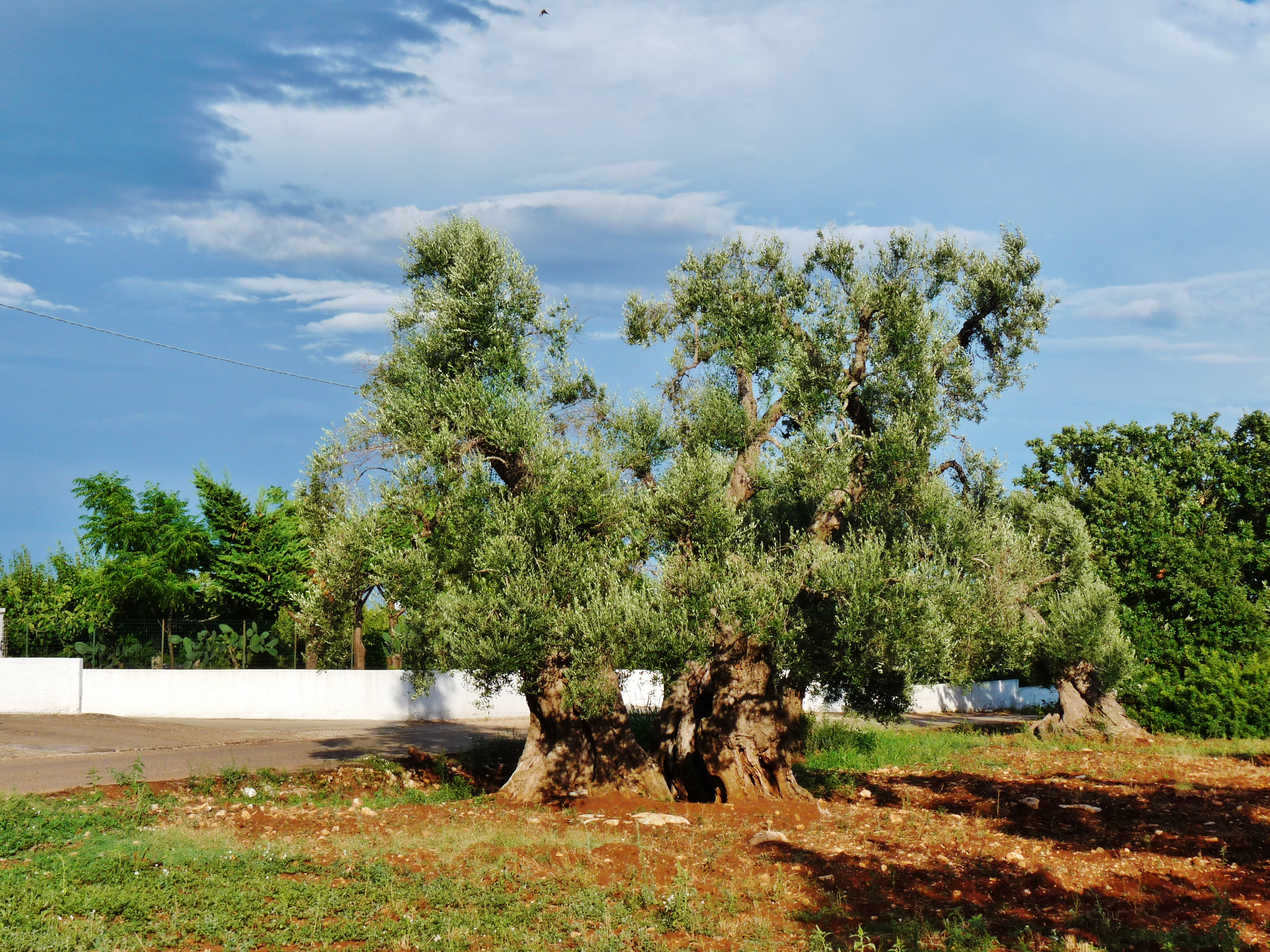 Olive tree photographed in Ceglie Messapica (Apulia)